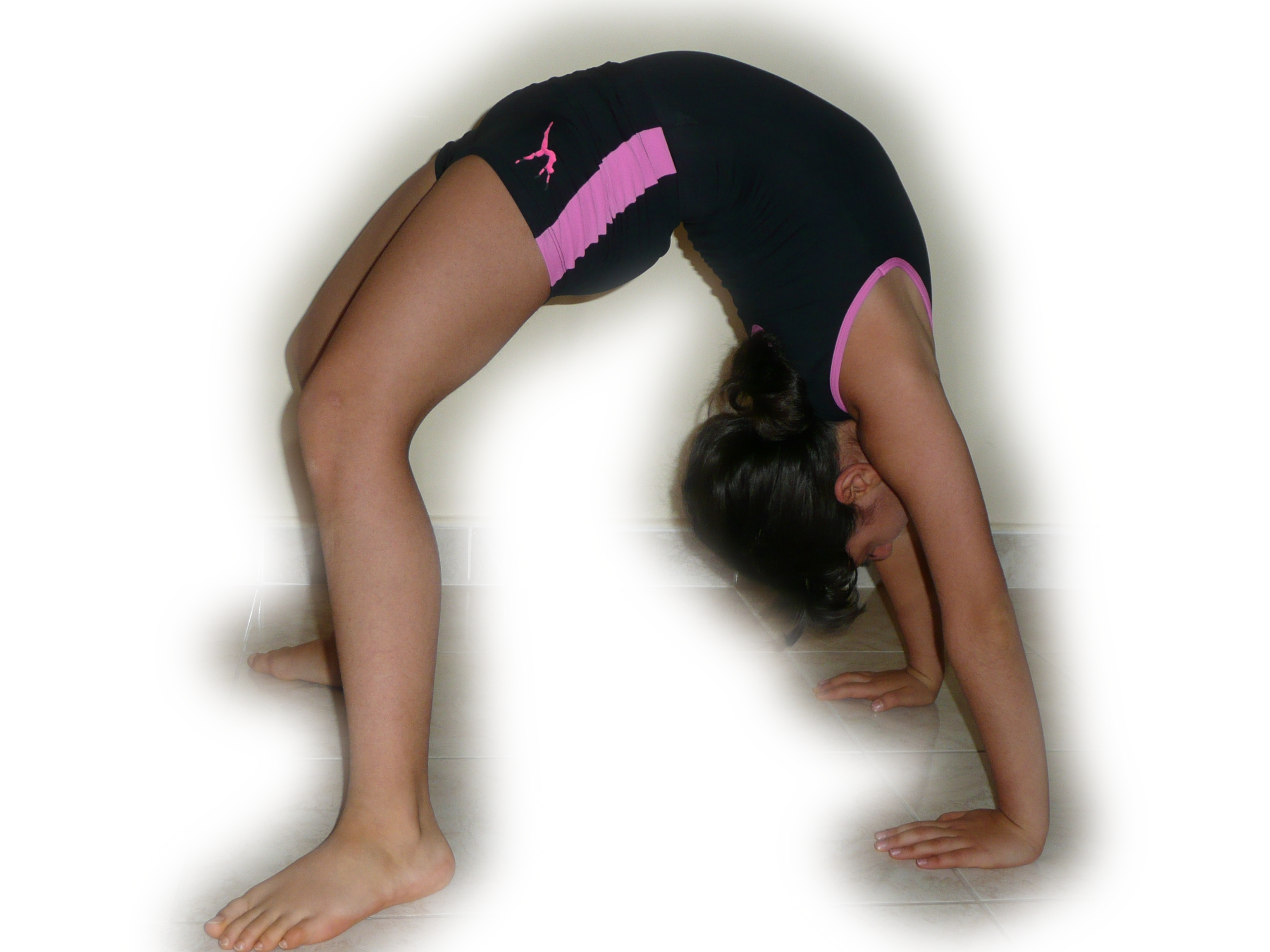 Stretching